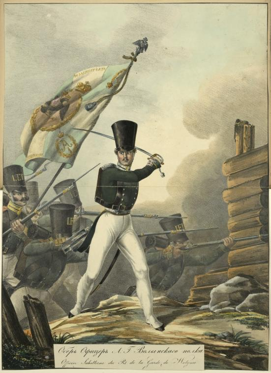 Officer of the Life-Guards Volhynian Regiment in 1830